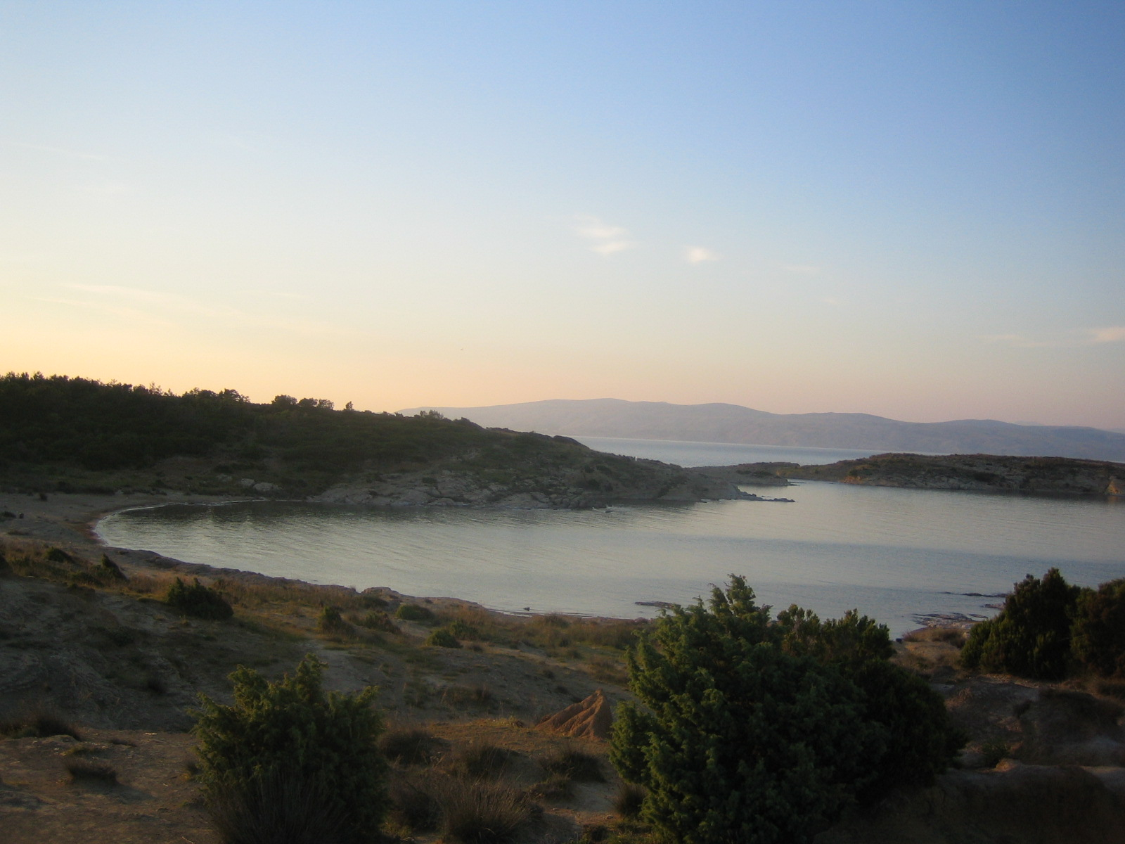 Ciganka (Gypsy) beach — Lopar, the island of Rab (dawn june 2005).